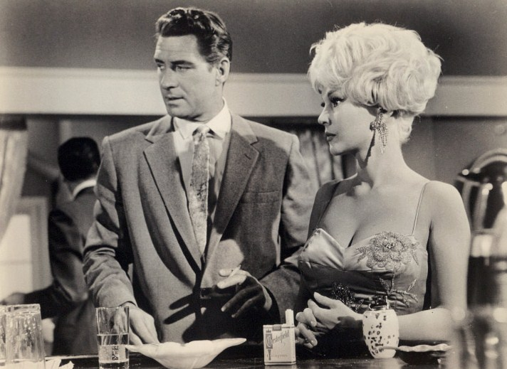 Jock Mahoney & Greta Thyssen in Three Blondes in His Life - publicity still (cropped)